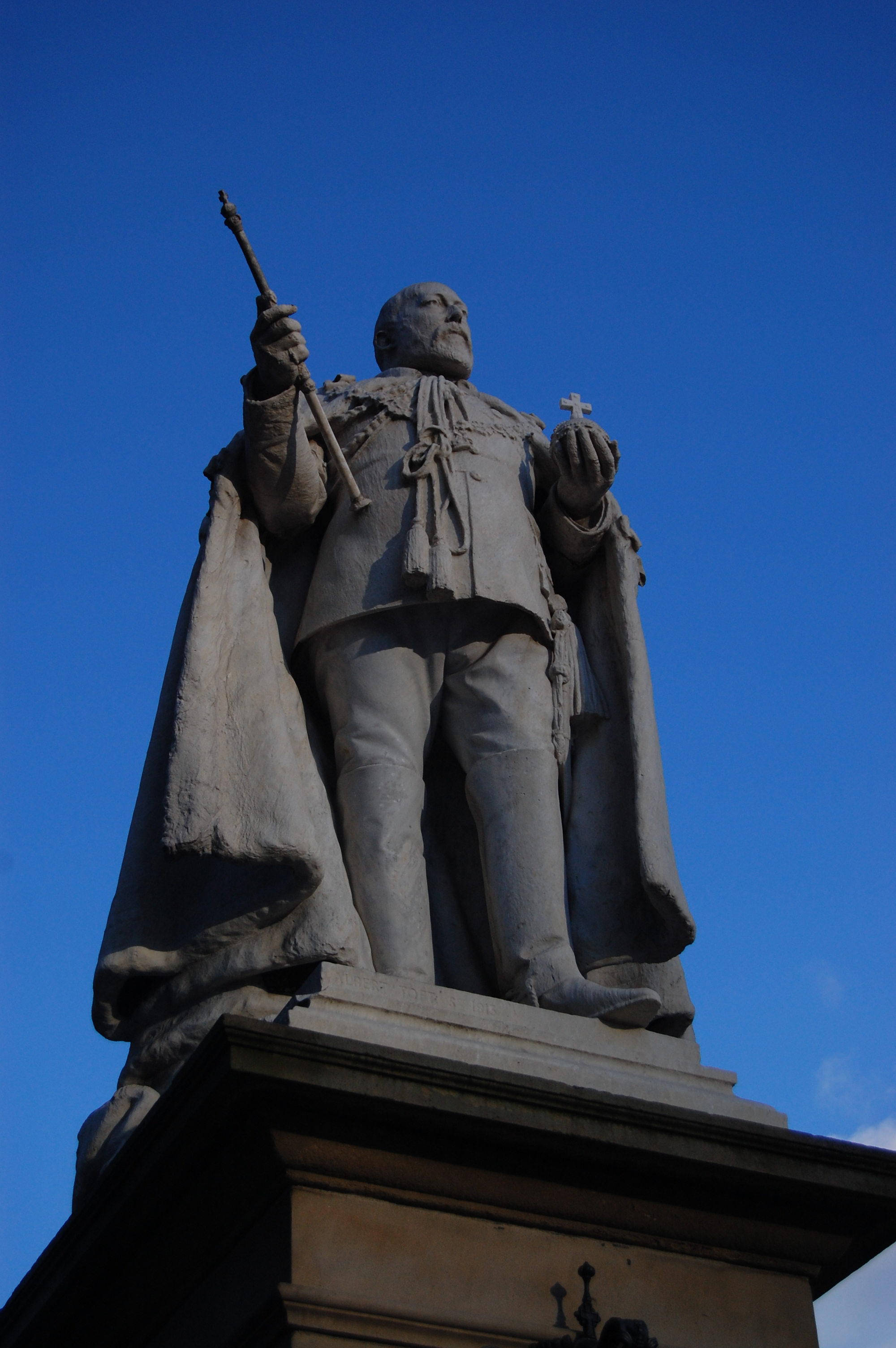 The King Edward VII Memorial, by Albert Toft, in Centenary Square, Birmingham, England.